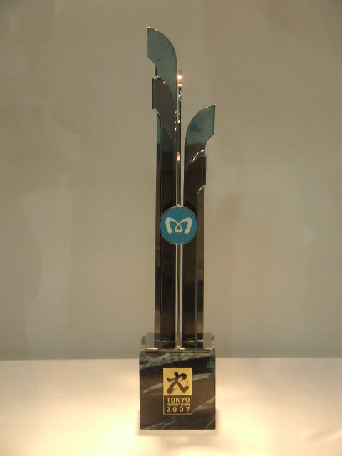 Trophy of 〝Tokyo Marathon 〟,Tokyo,Japan